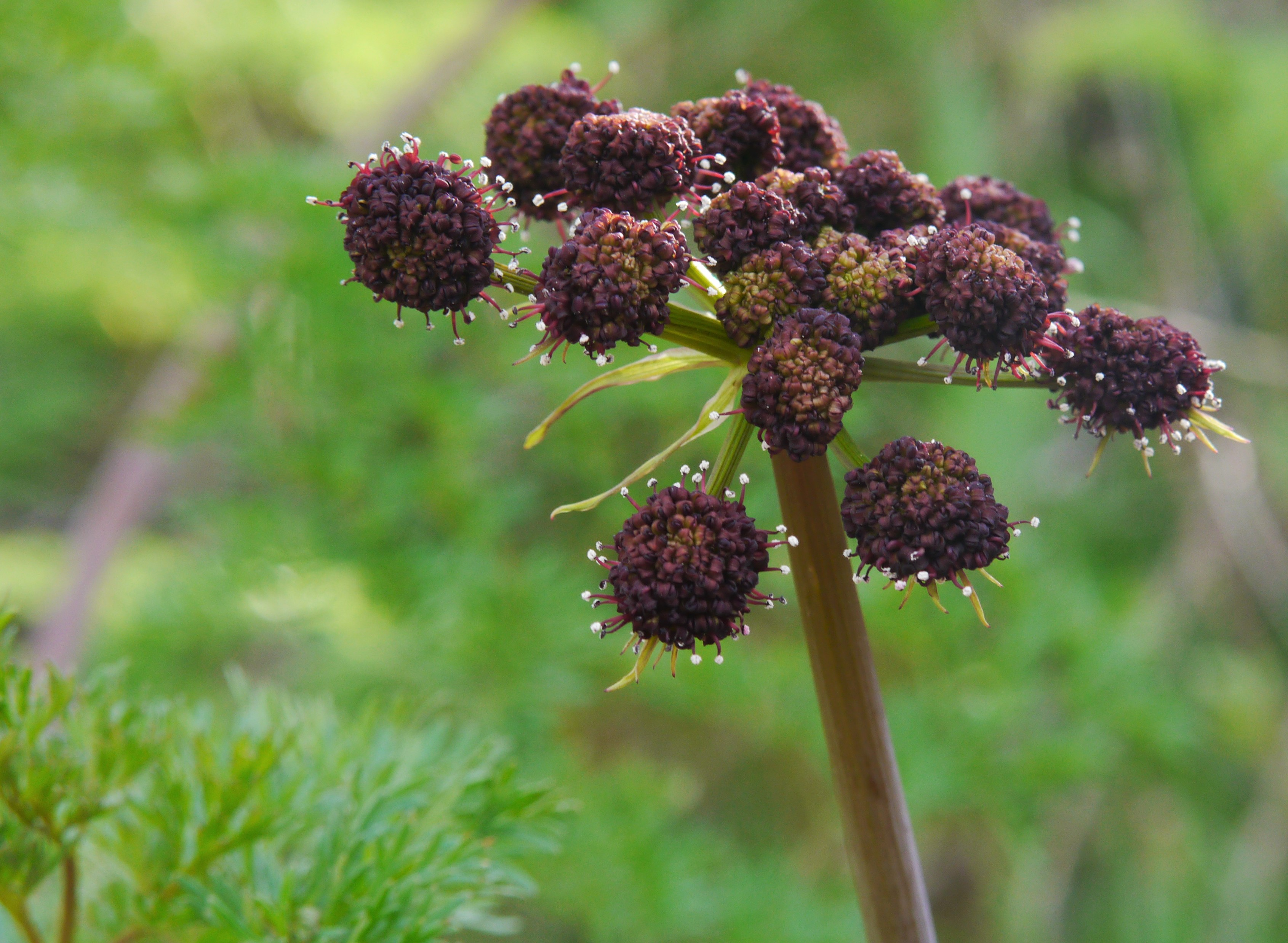 Lomatium dissectum var. dissectum flowering in Dryden, Chelan County Washington